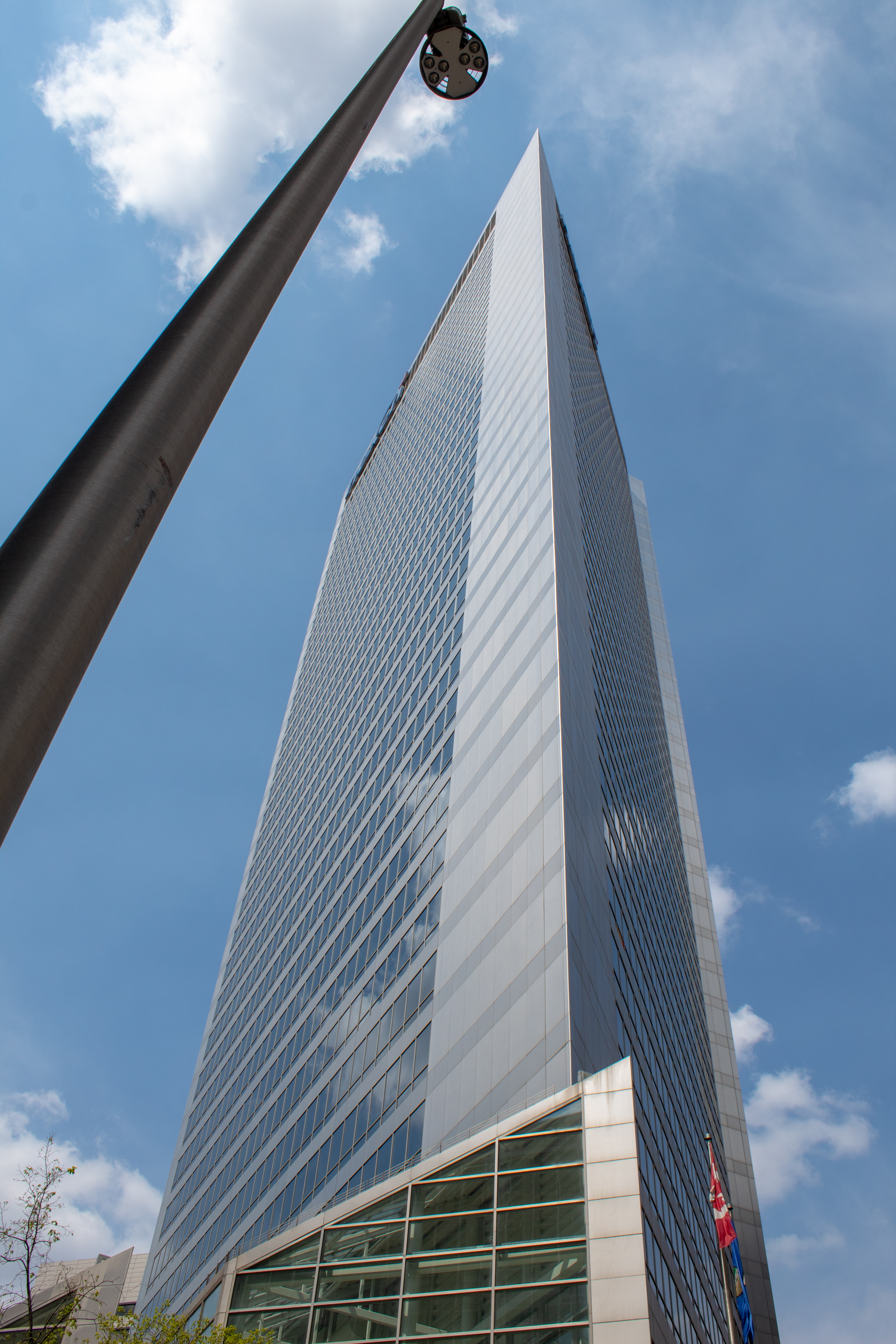 The Nexen Building in Calgary, Alberta